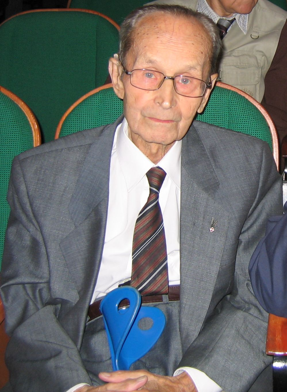 Bronisław Żurakowski, polish engineer aeroplane and helicopters constructor, glider test pilot at september 2007 year.